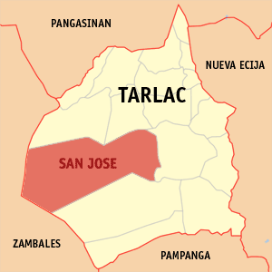 Map of Tarlac showing the location of San Jose